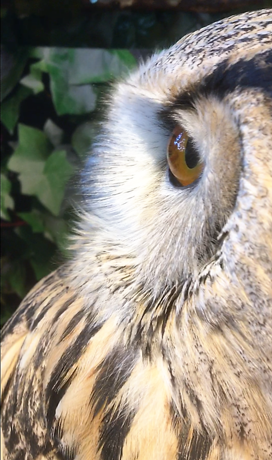 owl eye